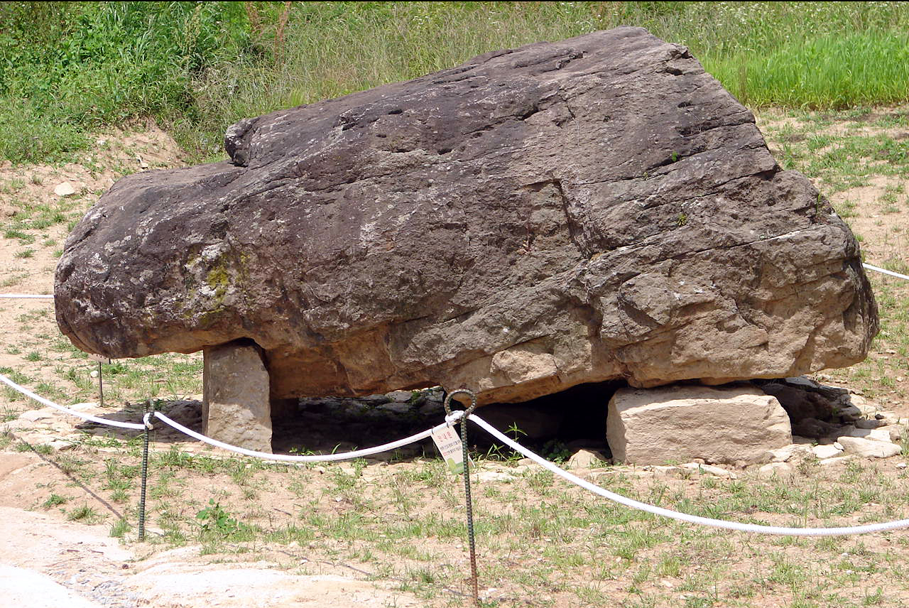 One of the dolmens at the Gochang Jungnim-ri Dolmens that are centered in Maesan village, Gochang County, North Jeolla province